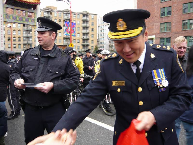 Jim Chu4